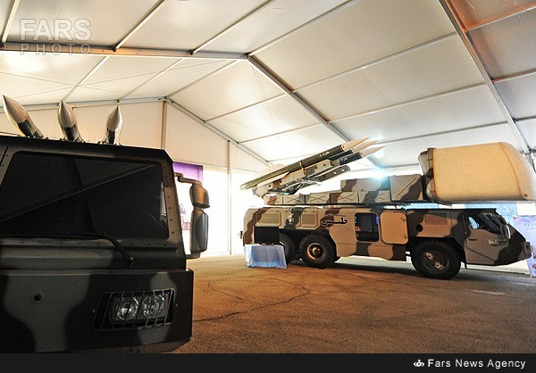 A SAM system labelled as the Tabas (right) was seen for the first time at an IRGC-ASF weapons expo in May 2014. Please see here for a source.